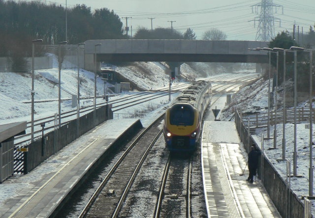 Unit 222023 British Rail Class 222 at East Midlands Parkway railway station Original description: Train from London An express from London passes through the new East Midlands Parkway station, which was opened just a week earlier. The bridge is new, and carries the access road to the station.